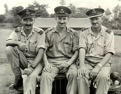 Merauke, Dutch New Guinea. 1943-12-23. Sitting on a jeep car, from left: Squadron Leader W. J. Guthrie, Commanding Officer, No. 12 (Vengeance) Squadron RAAF; Wing Commander I. S. Podger DFC, Senior Air Staff Officer North Eastern Area; Group Captain A. L. Walters AFC, Officer Commanding, No. 72 Wing RAAF.